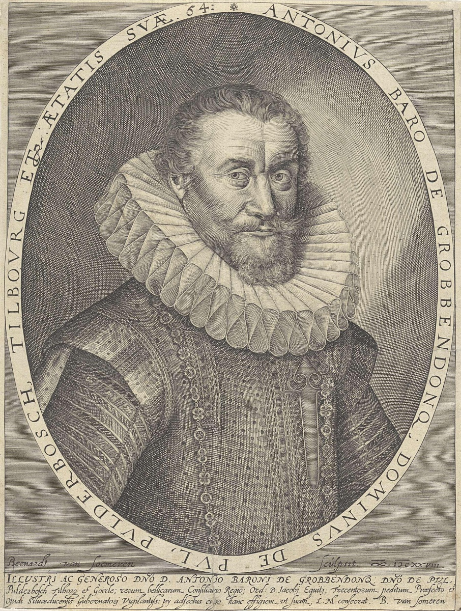 Lord Anthonie Schetz baron of Grobbendonck (1564-1641) in his age of 64